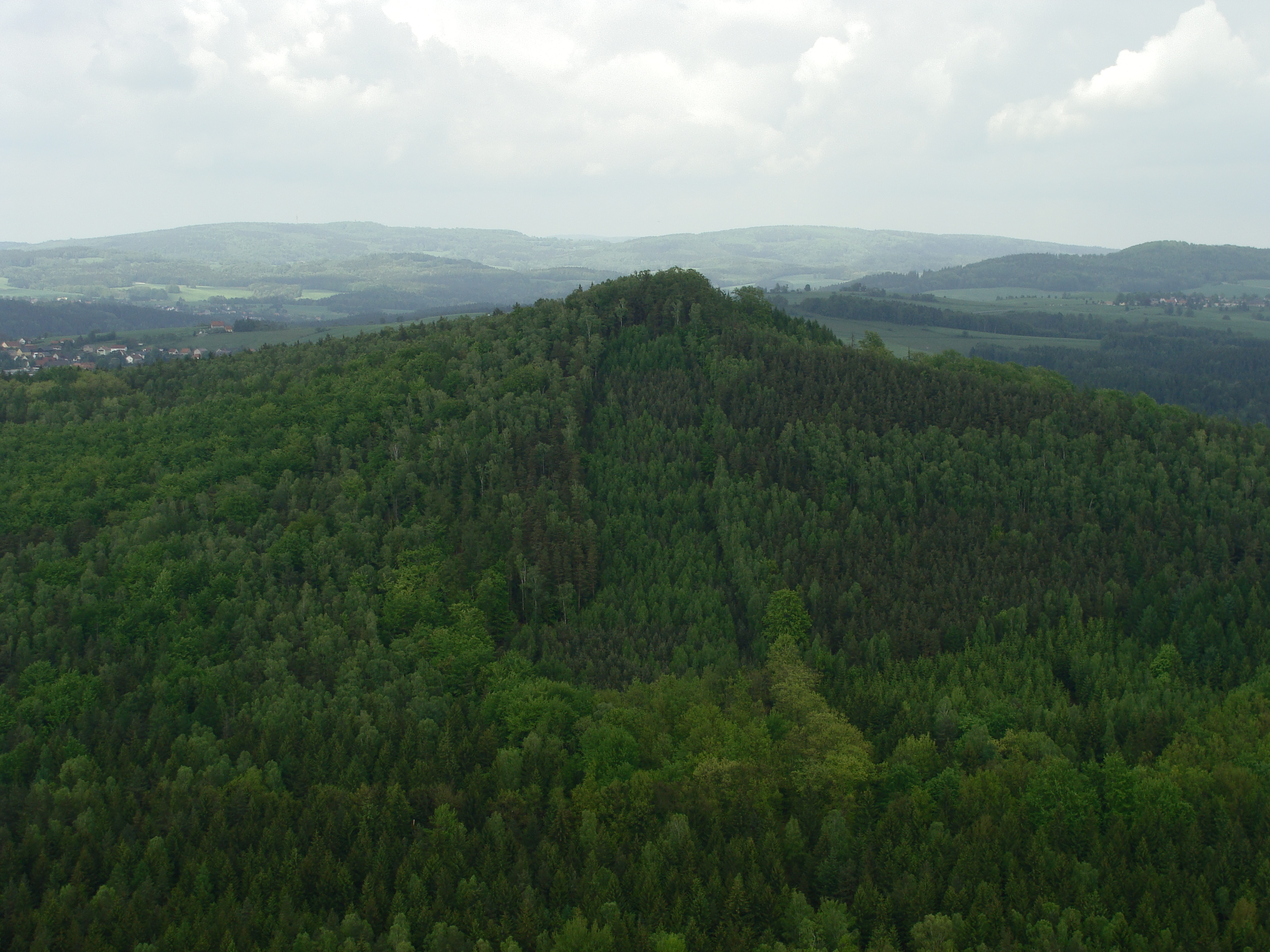 Hohe Liebe in Saxon Switzerland